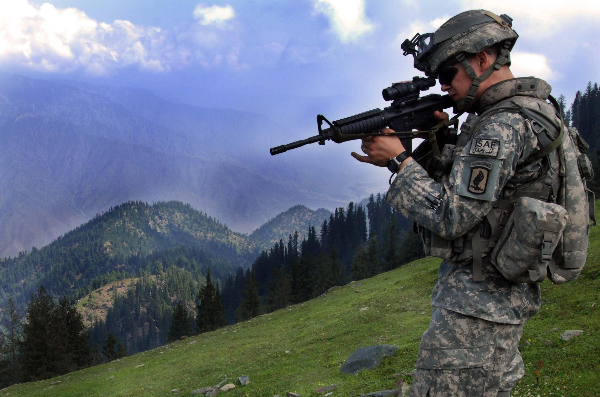 070719-A-6849A-335 - 1st Lt. Chris Richelderfer, Executive Officer of Headquarters and Headquarters Troop, 1st Squadron, 91st Cavalry Regiment (Airborne), looks at possible enemy positions during Operation Saray Has July 19 near Forward Operating Base Naray, Afghanistan. (U.S. Army Photo by Sgt. Brandon Aird) [1]